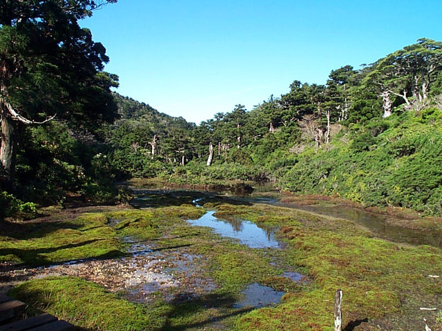 Kohananoego wetland, Yakushima, Japan